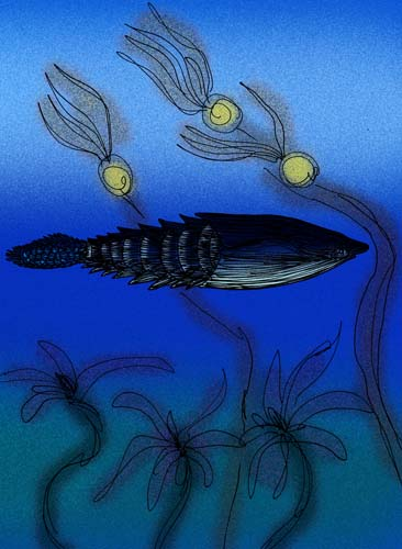 Reconstruction of the cyathaspidiform heterostracan agnathan Anglaspis macculloughi, of Late Silurian Wales and England